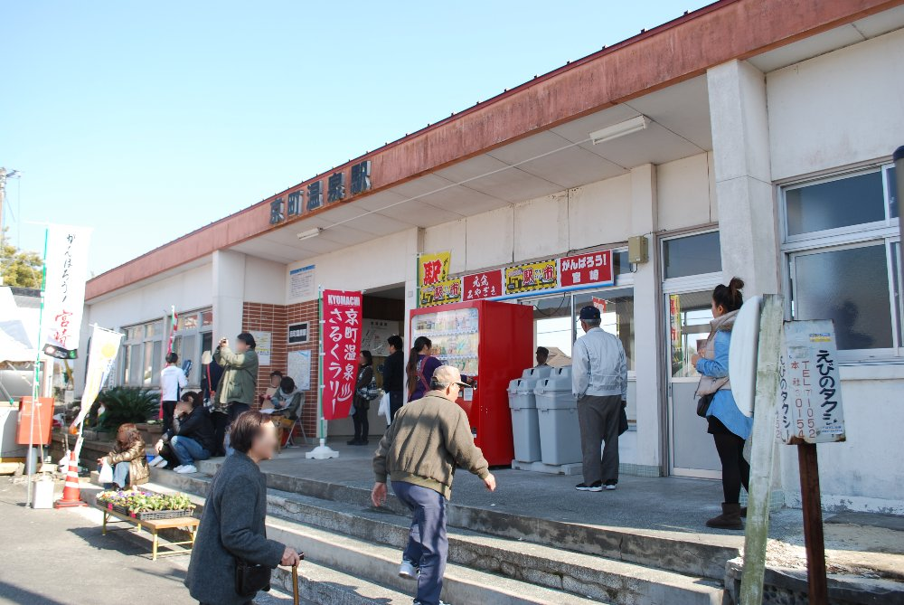 Kyomachi-Onsen Sta.,Ebino-city,Japan